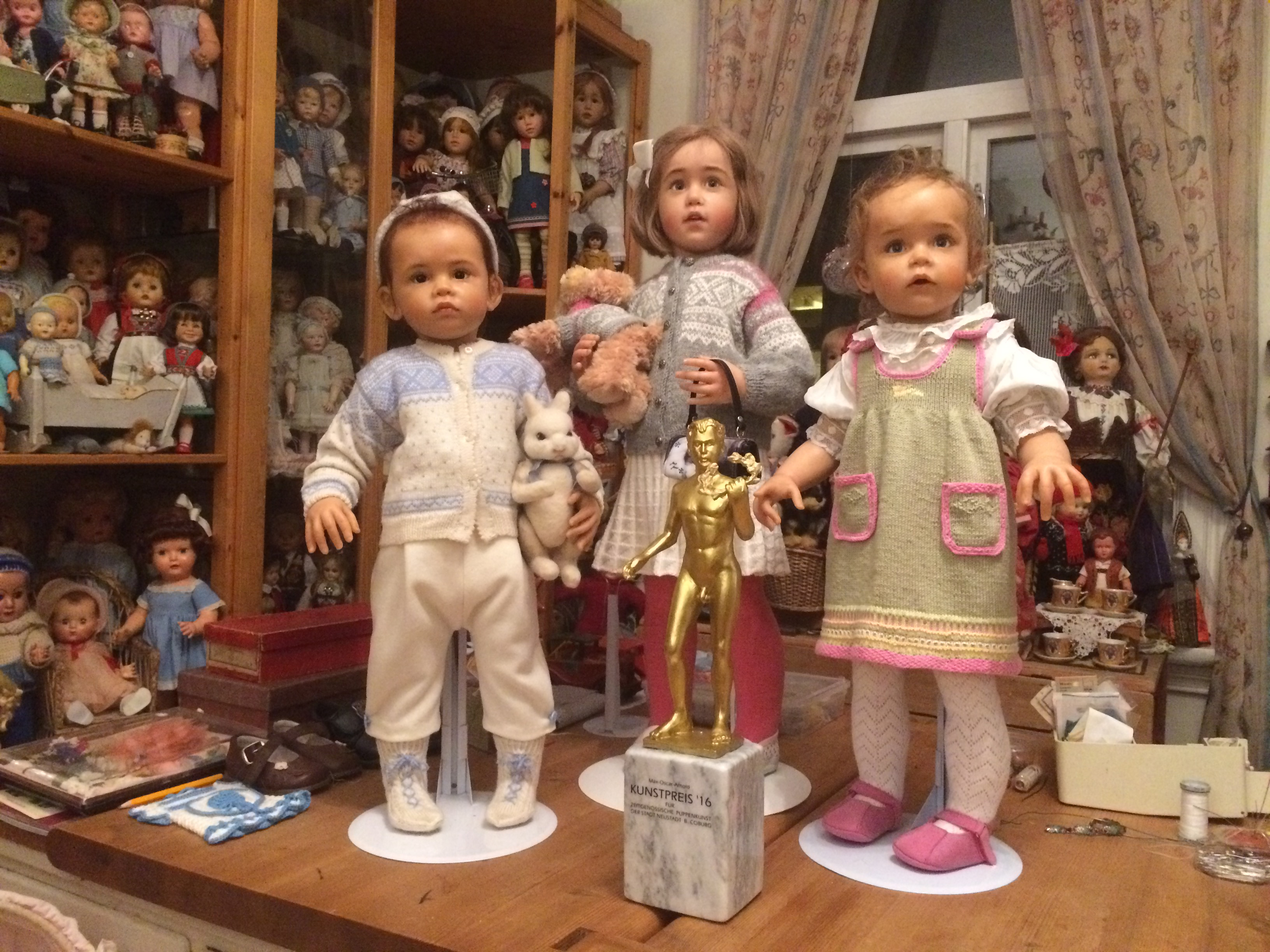 The Norwegian doll artist Sissel Bjørstad Skille was awarded the Max-Oscar-Arnold Kunstpreis 2016. The photo shows the statuette and some of her dolls